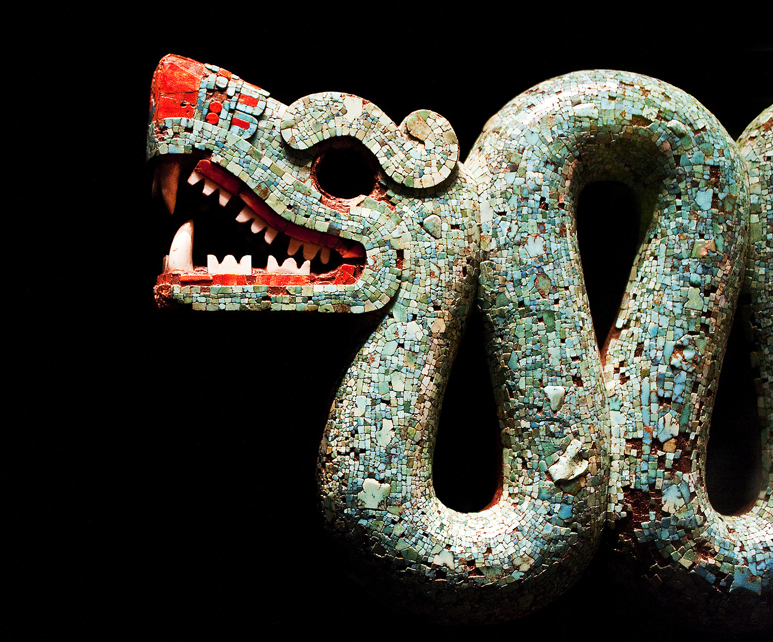 Double Headed Serpent. One of the photographer's favourite objects in the British Museum which must of looked awesome when first made below is the text from the British Museum site about this wonderful artefact. The Double-headed serpent is a mosaic principally of turquoise which has been applied to a carved wooden sculpture of a two headed serpent. The sculpture is currently in Room 25 of the British Museum. This sculpture came from Aztec Mexico and could have been worn of displayed in religous ceremonies. The feathered serpent god Quetzalcoatl was important to their religion.